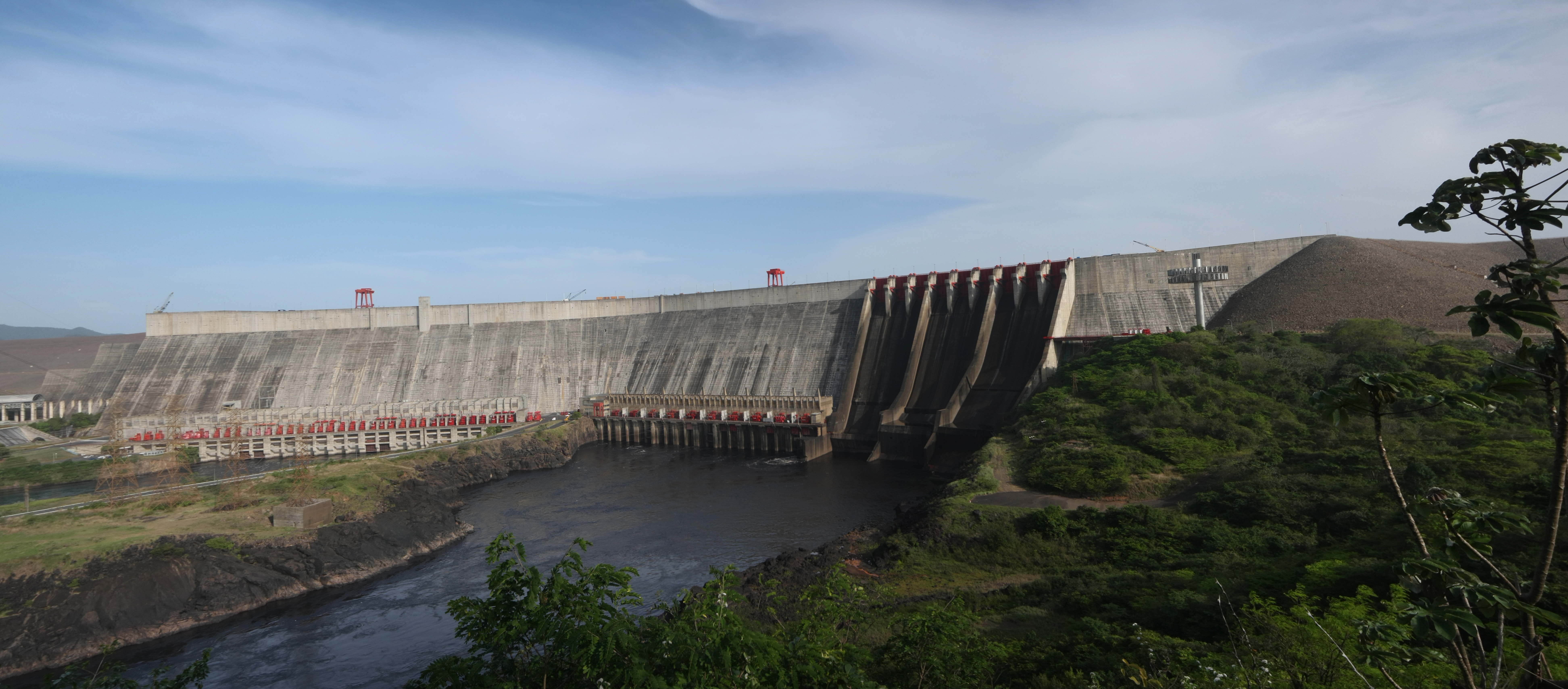 Guri Dam